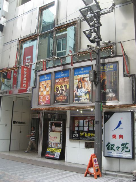 The Shinjuku Musashinokan movie theater in Tokyo, Japan, in August 2010